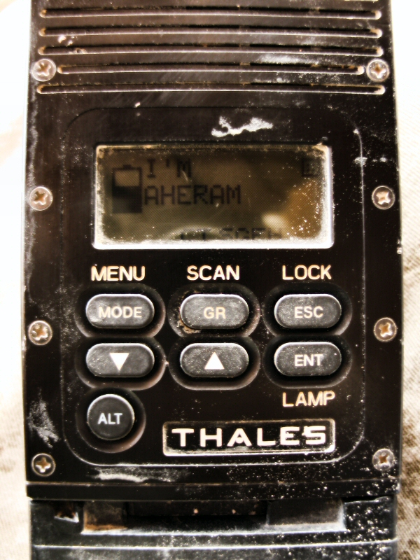 MBITR PRC-148 screen and keys